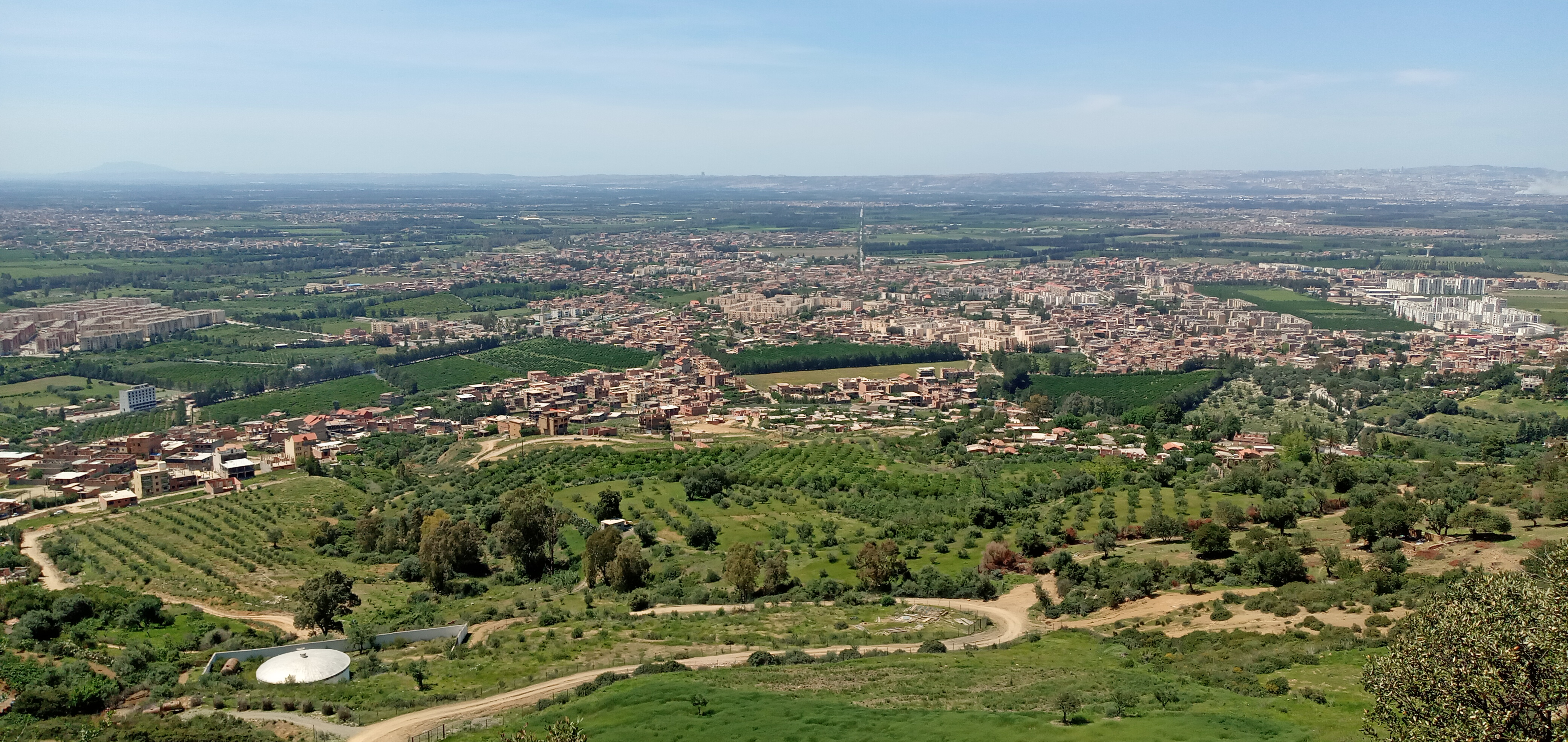 City of Larbaa Bni Moussa - Blida